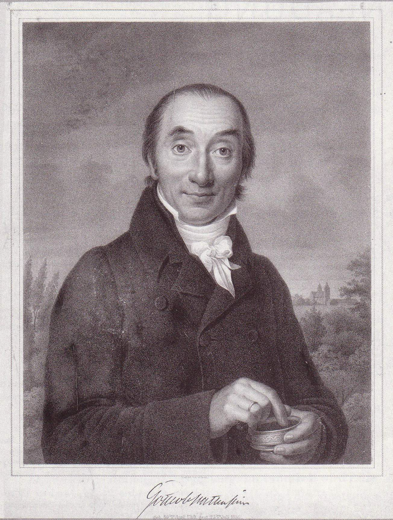 Johann Gottlob Nathusius, Stich. Johann Gottlob Nathusius (30 April 1760 – 23 July 1835) was a German industrialist. Nathusius was born in Baruth, and learned the trade of a merchant in Berlin, later joining the trading company Sengewald in Magdeburg